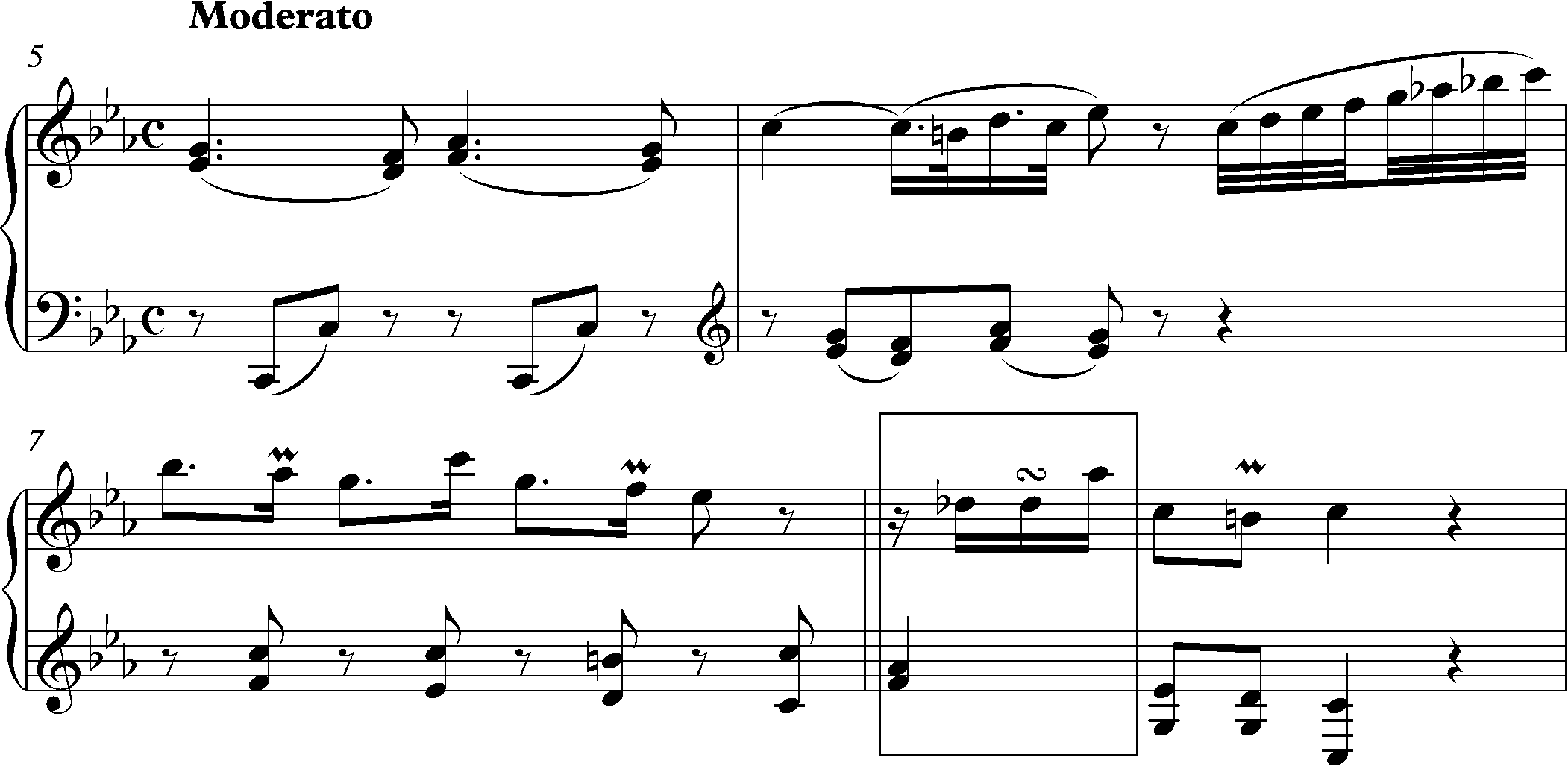 Haydn Piano Sonata No. 20 in C minor, first movement, bars 5-8